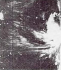 Typhoon Ruby, 02 September 1964 16Z